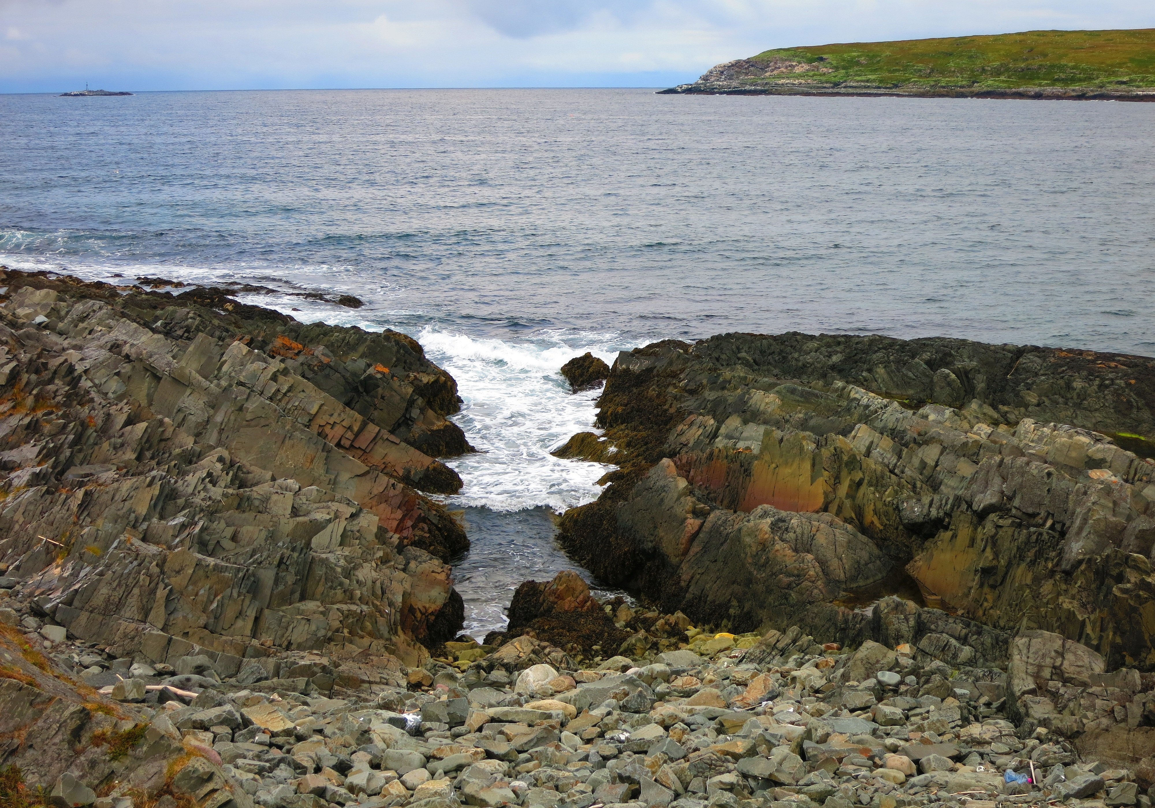 A view from east coast of Vardøya Island to north-east. Mini-fjord on the foreground, and Reinøya Island on the background. (Finnmark, Norway)